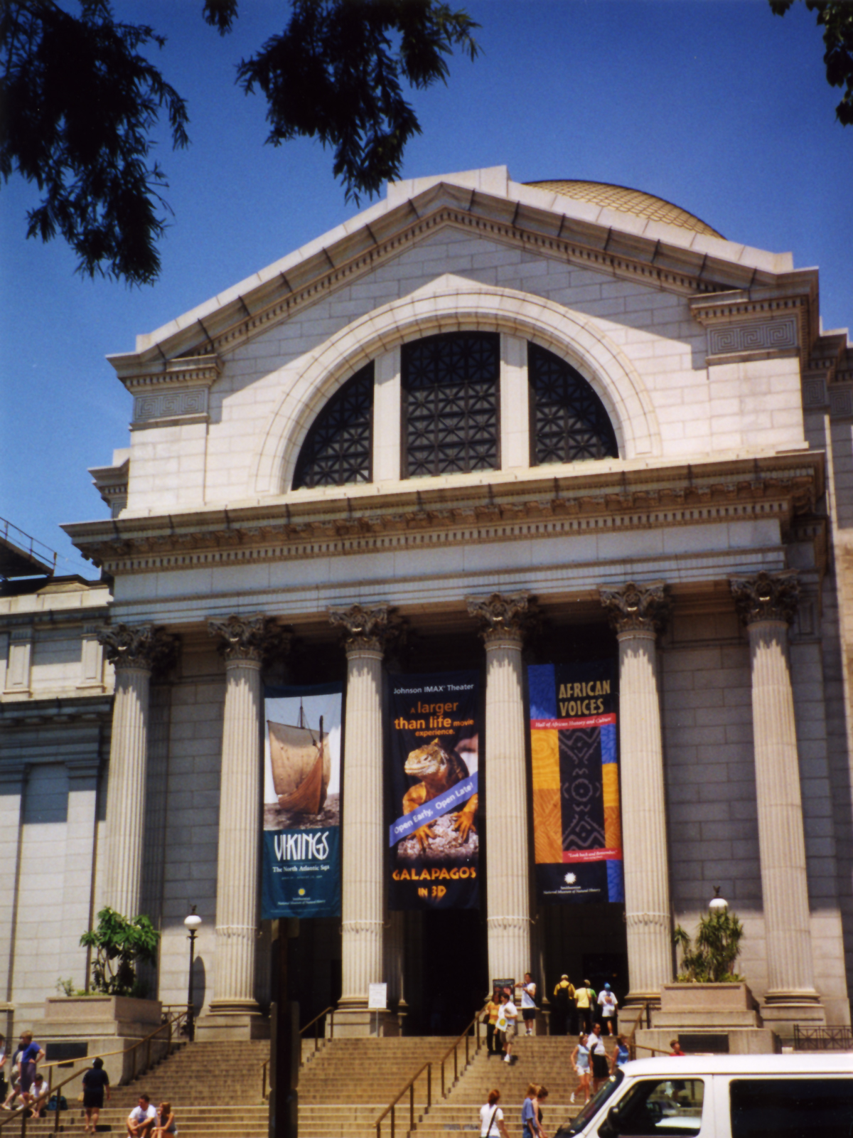 National Mall entrance to the Smithsonian's National Museum of Natural History in Washington, D.C. Photo taken by Kmf164 in March 2001.